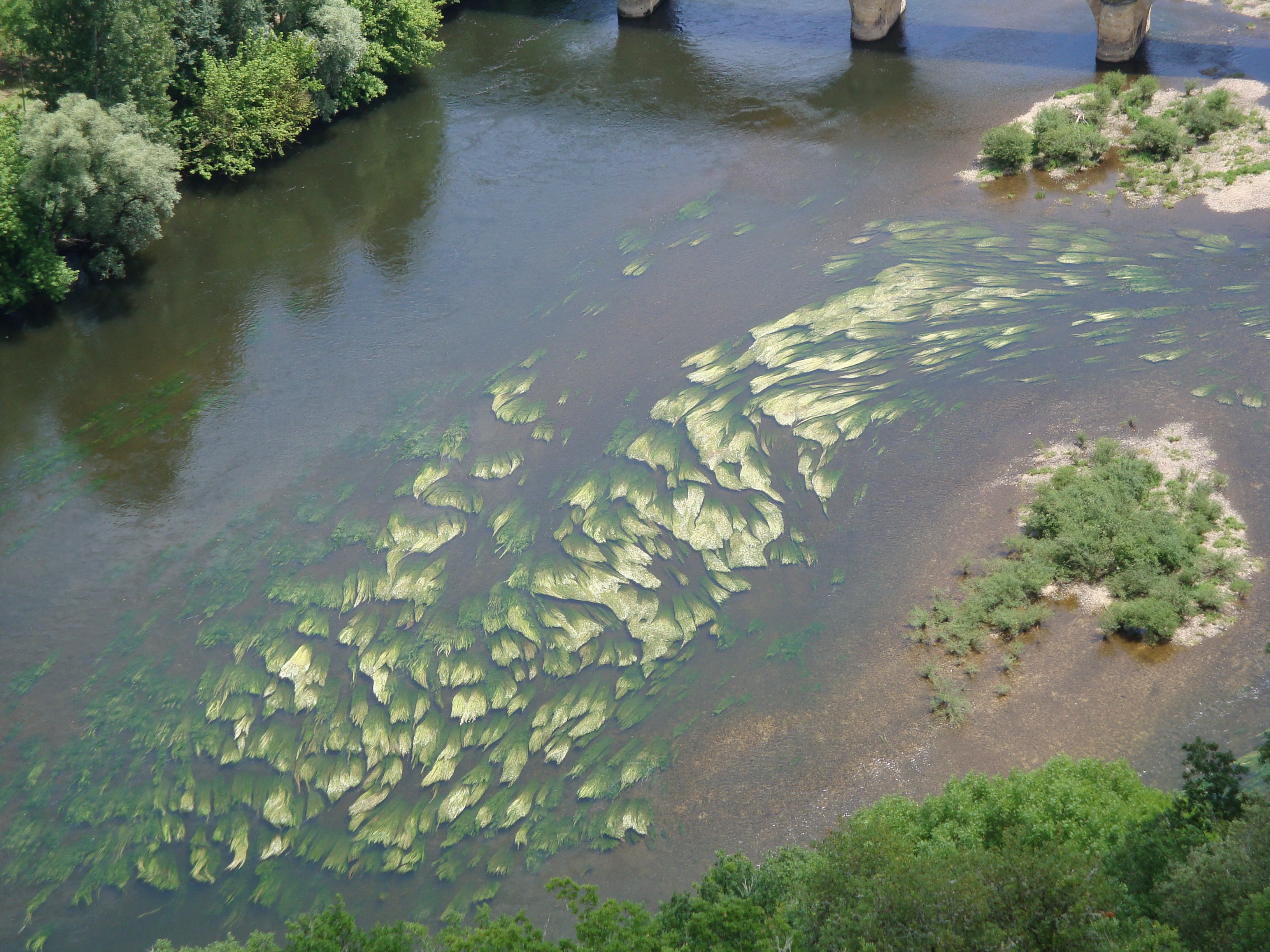 Ranunculus species, possibly R. fluitans, found in the Dordogne-river in France.